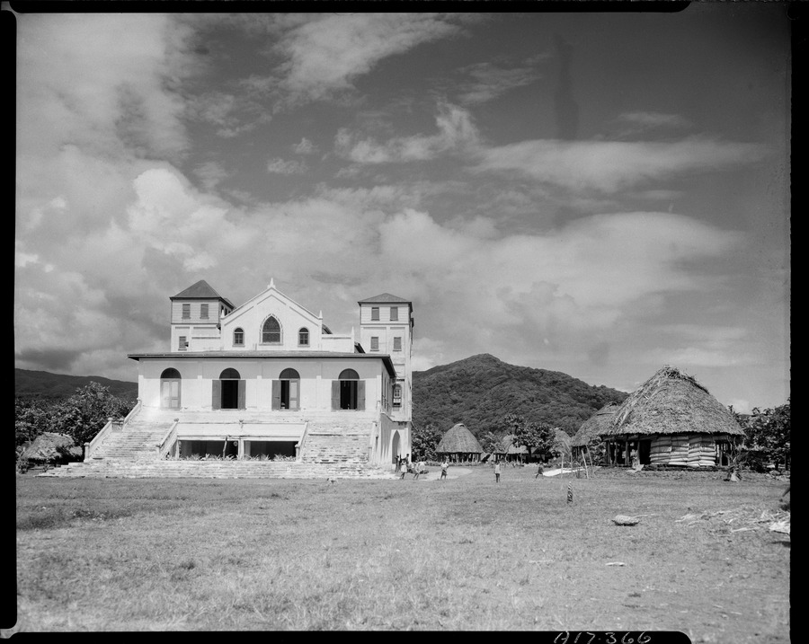 Samoa - New reinforced concrete London Missionary Society [Black and White Negative - 4 x 5 inches - Taken by W. Walker - Sept/Nov 1949] Archway Item ID: R123586871 Archives Reference: AAQT 6401 Box 6/ A17366